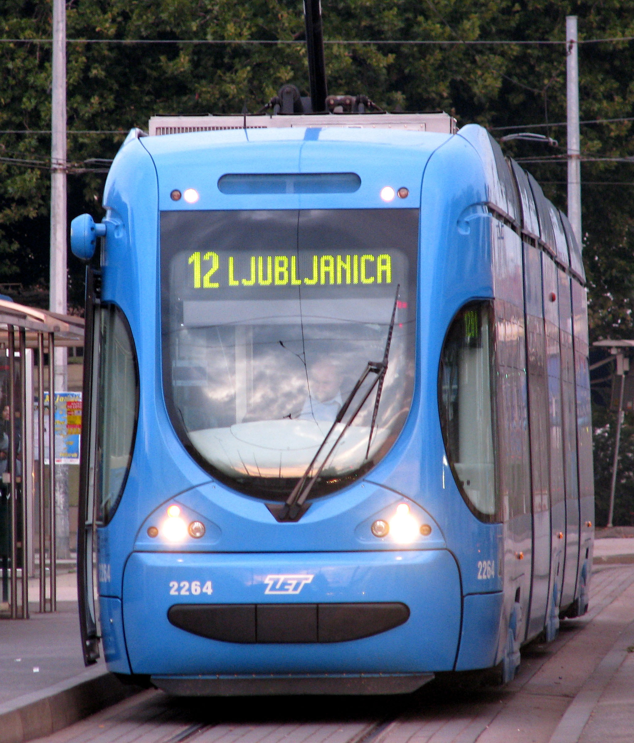 Crotram TMK 2200 tram (#2264) in Dubrava, Zagreb, Croatia. Built 2007.